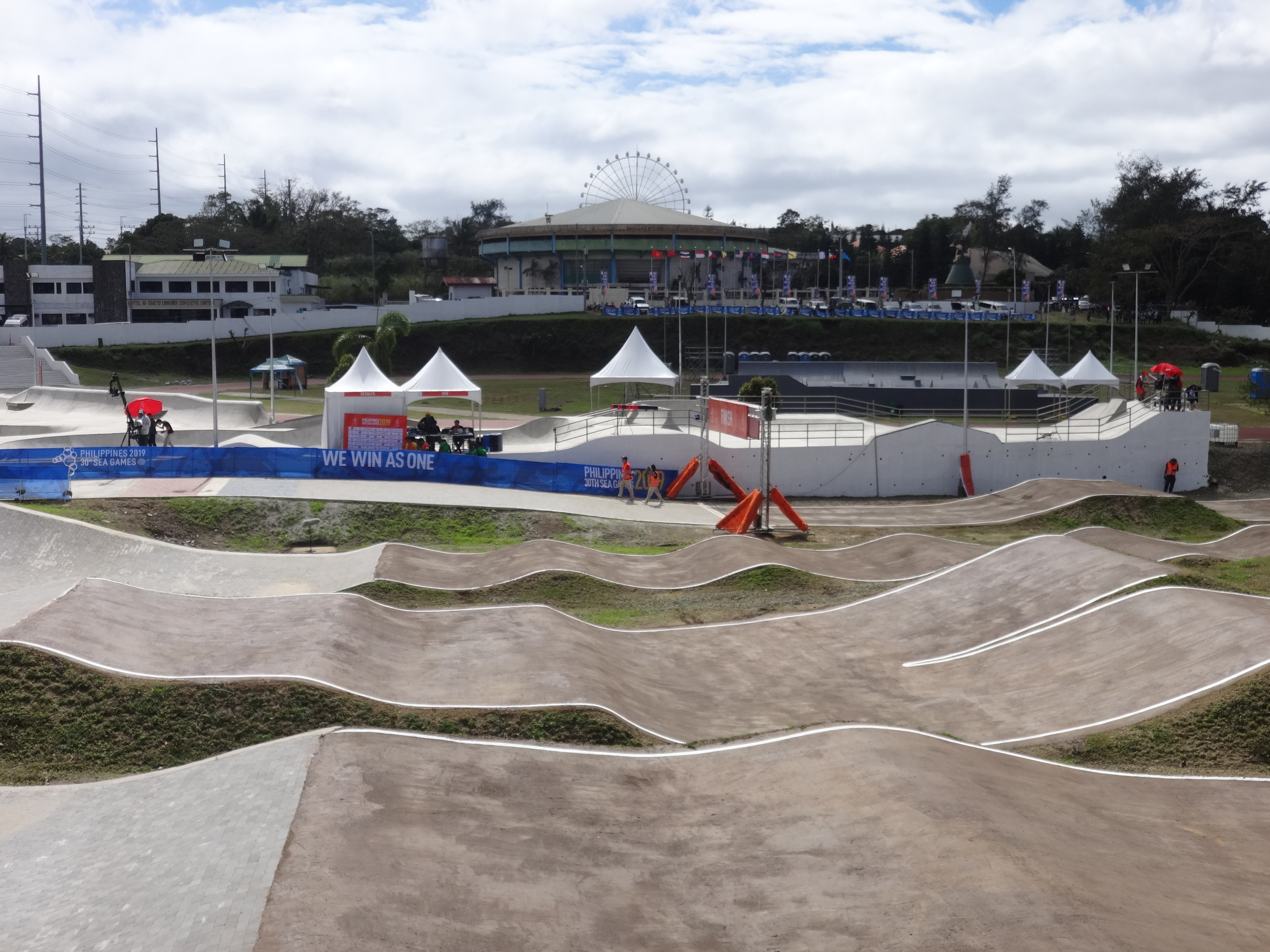 Tagayatay Skatepark in Cavite during SEA Games 2019